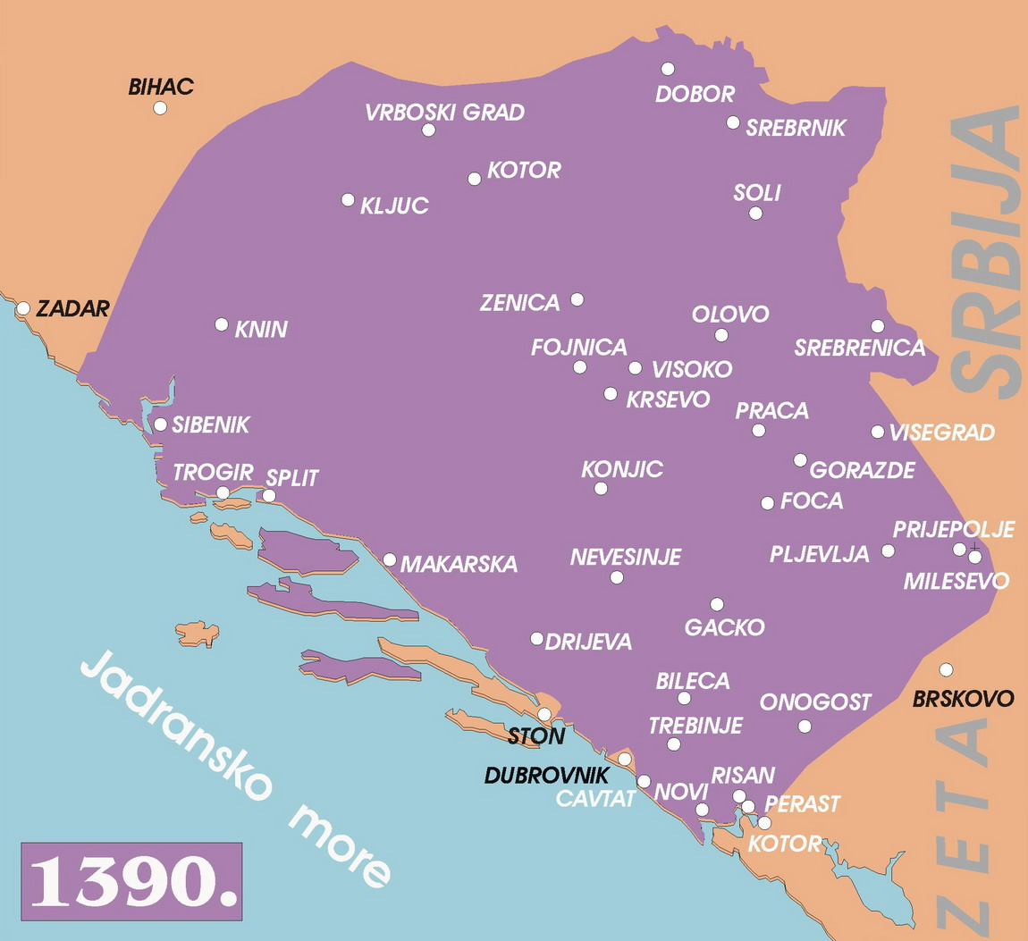 Bosnia 1390.